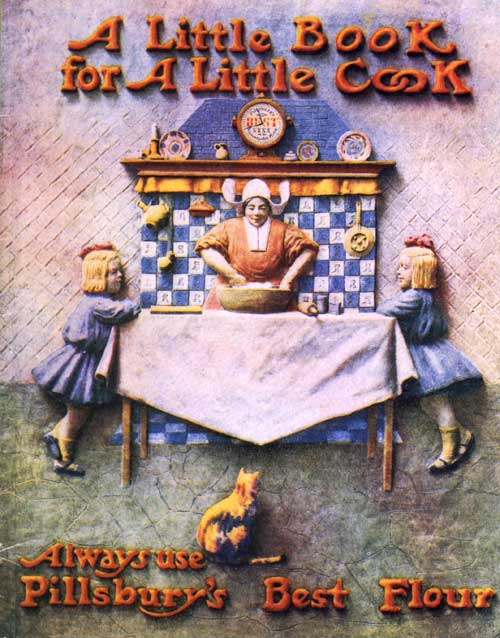 Book cover for A Little Book for a Little Cook